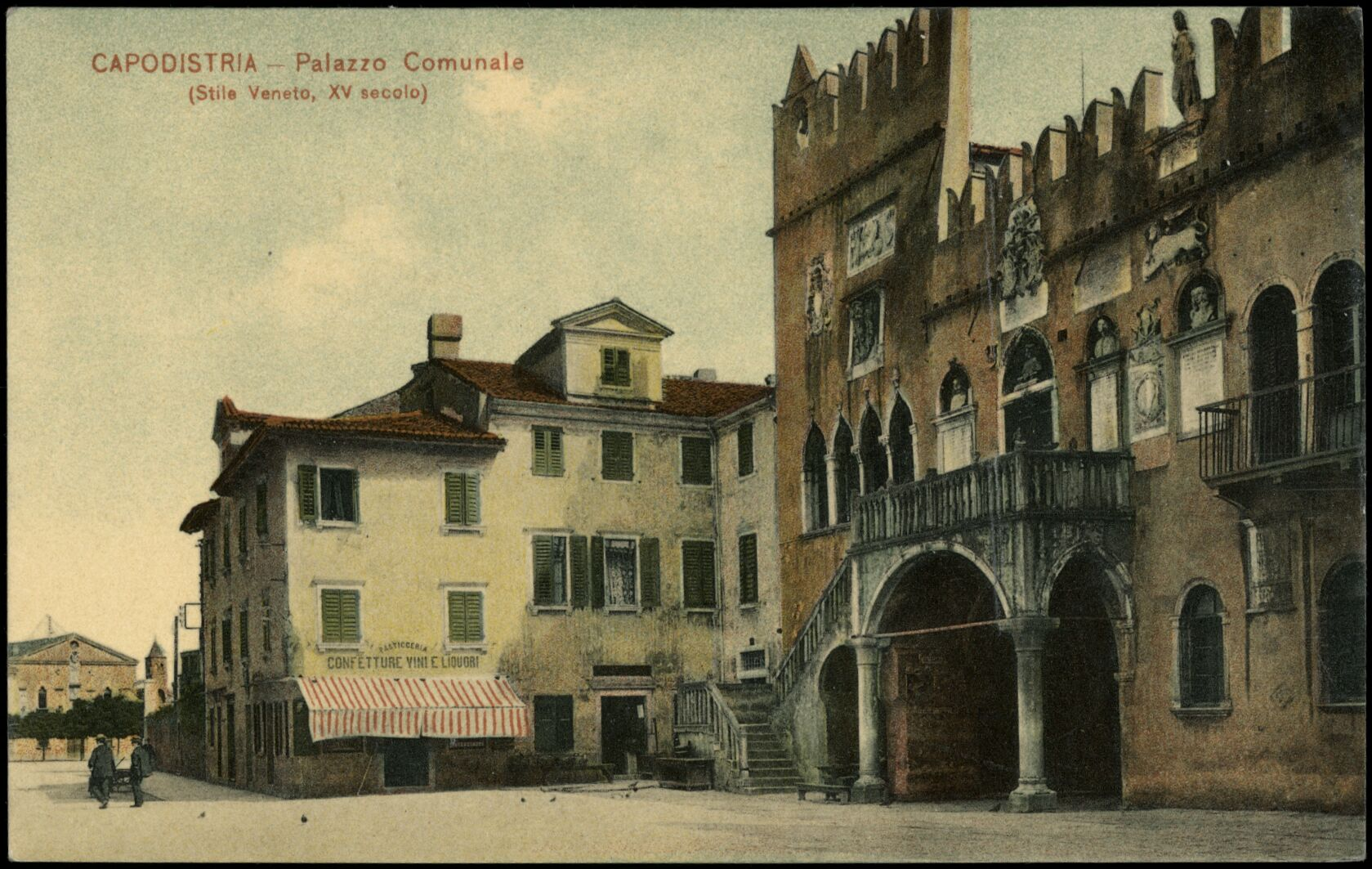 Postcard of Koper.